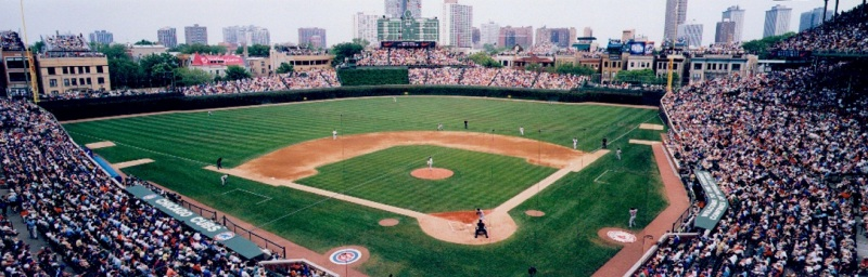 Panoramic of Chicago Cubs vs Boston RedSox. Taken in 2005 by Bob Horsch --Got my dates mixed up before 04:42, 1 April 2008 . . Bob Horsch . . 800×256 (123 KB)